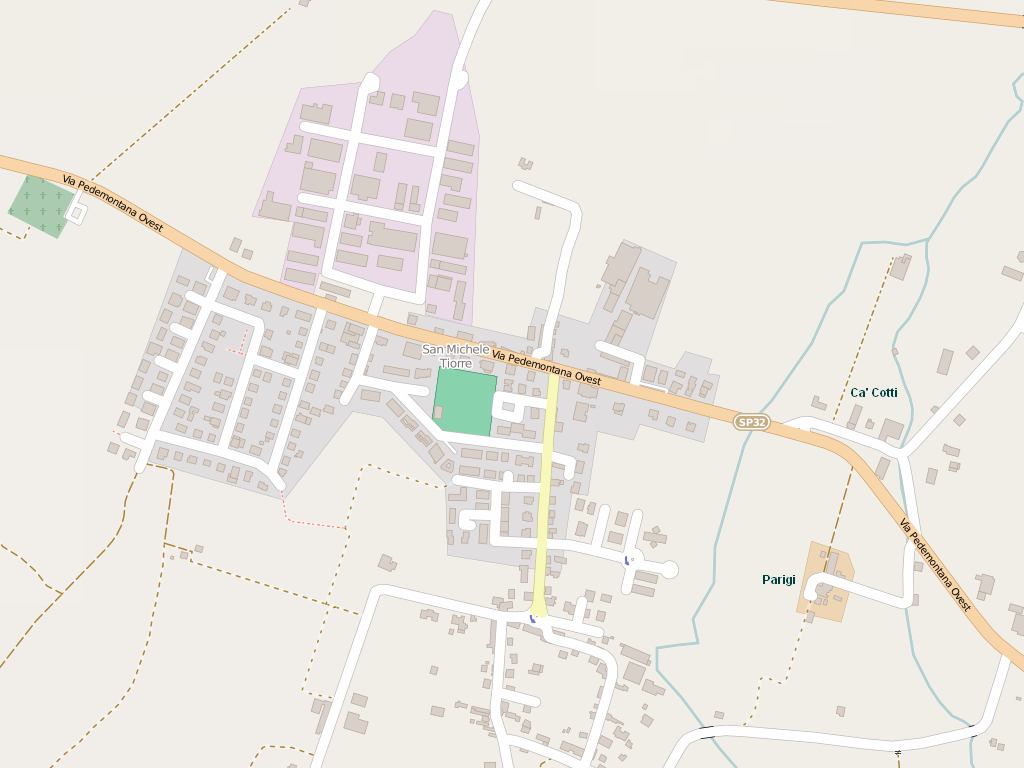 This map may be incomplete, and may contain errors. Don't rely solely on it for navigation.